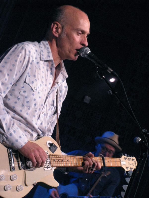 John Mann of Spirit of the West performing in Calgary at Flames Central